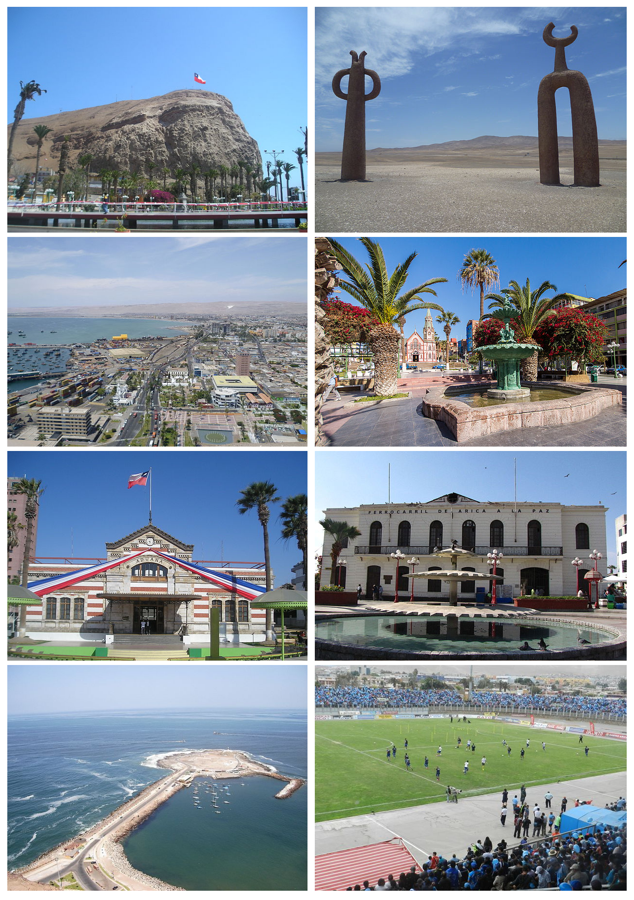 Montage of San Marcos de Arica, Arica & Parinacota Region, Republic of Chile.